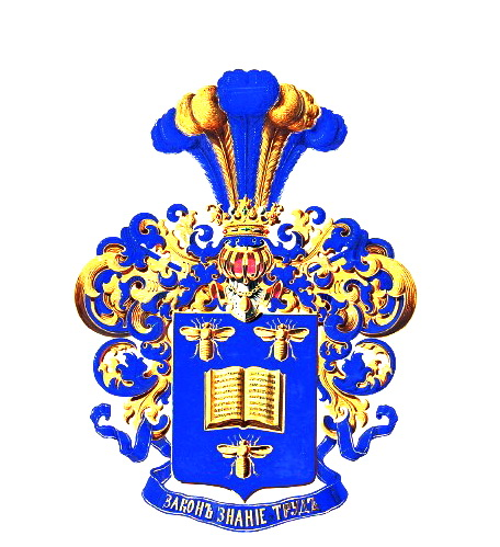 Coat of Arms of Ligin family